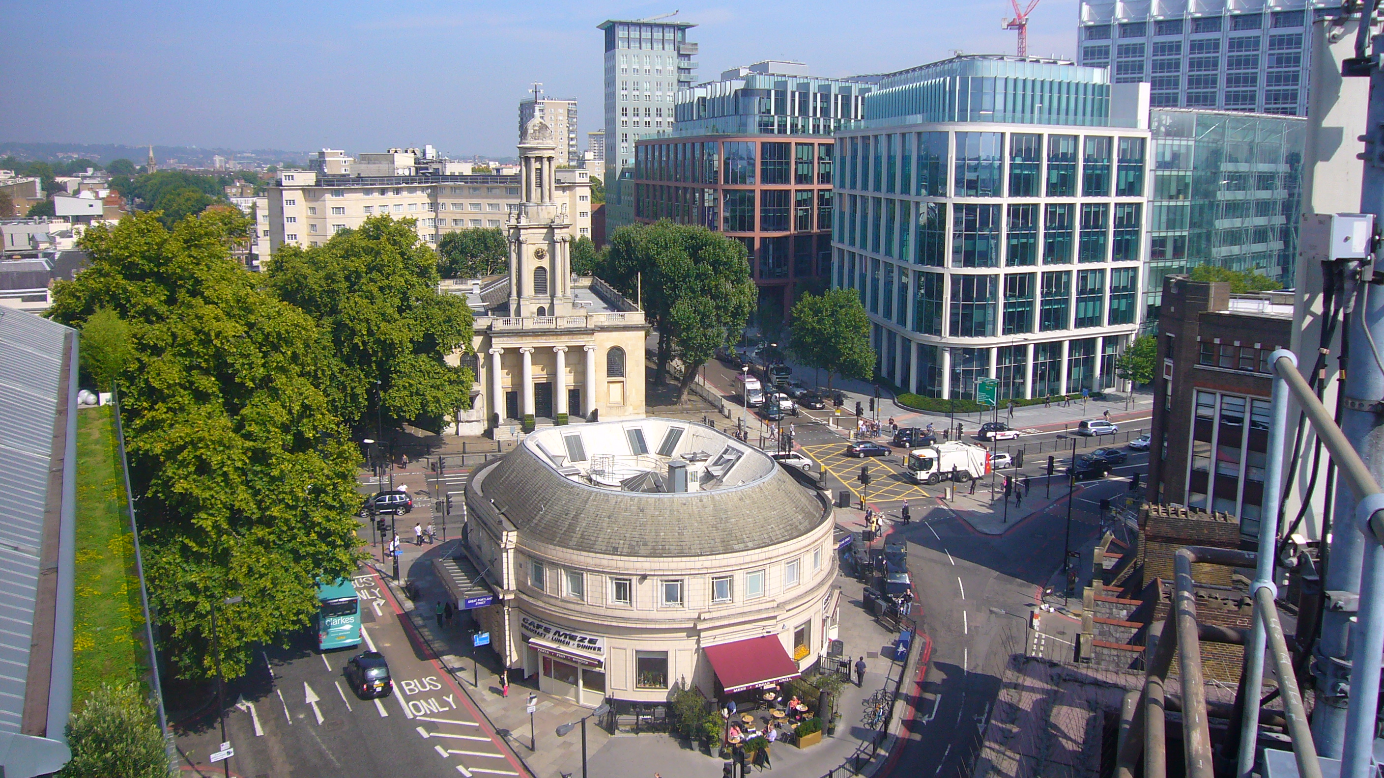 High level shot of Regents Place as seen from Great Portland Street. Photograph also show position of Holy Trinity Church and Great Portland Street Underground Station in the foreground